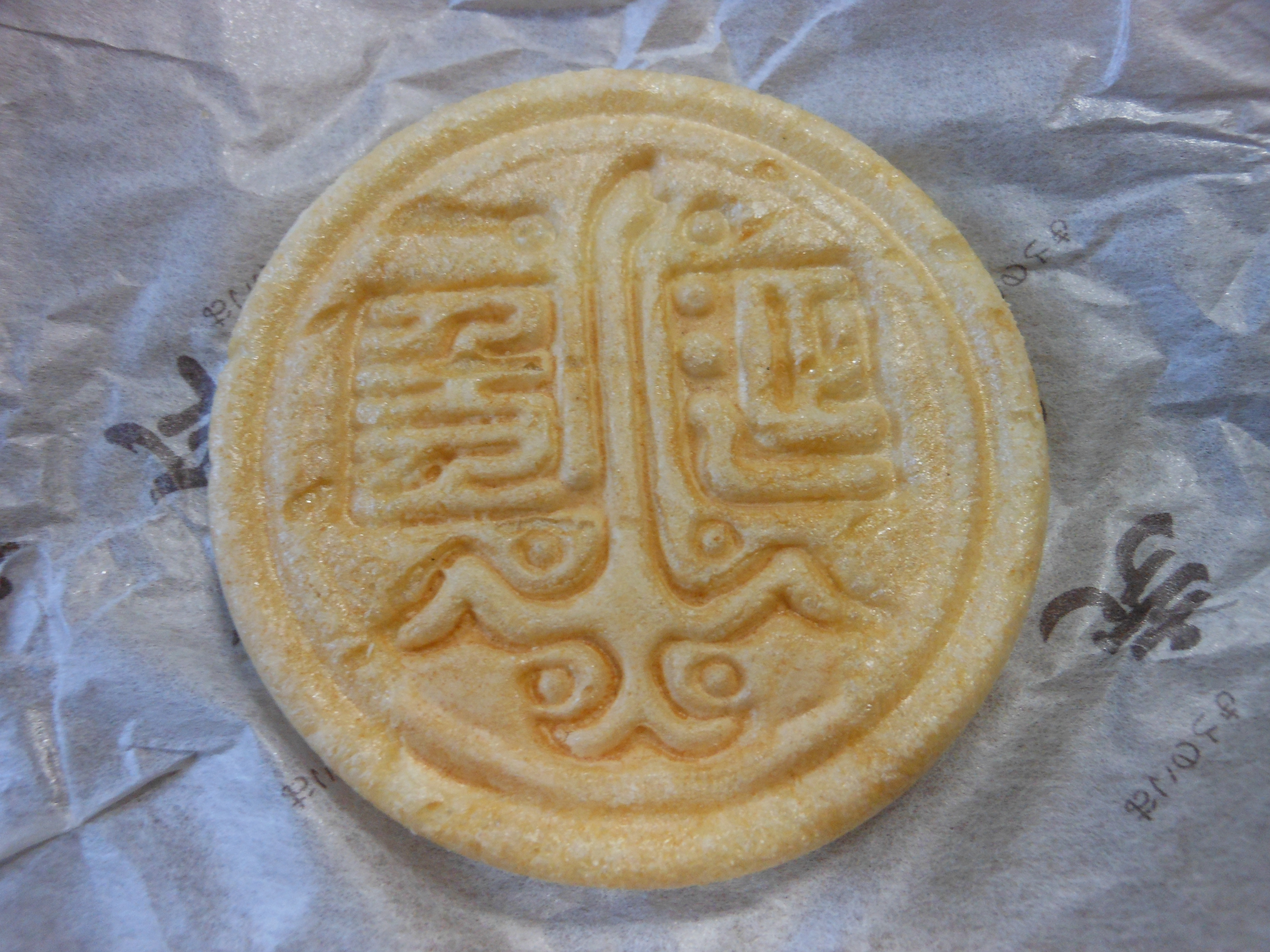 This is a wagashi "Oi-no-Tomo", made by Yanagiya Hozen, a wagashi maker in Matsusaka, Mie, Japan.